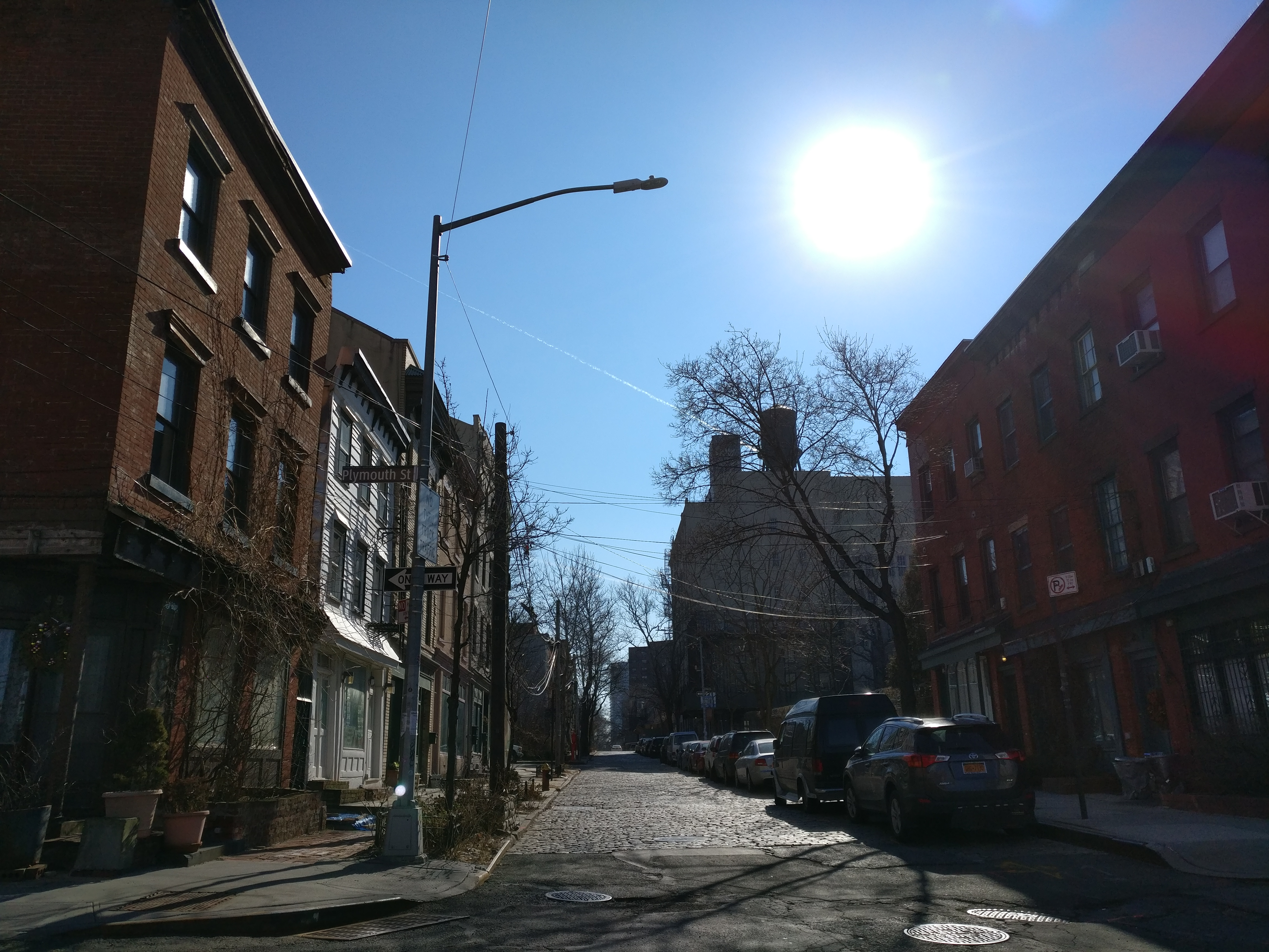 The community of Vinegar Hill